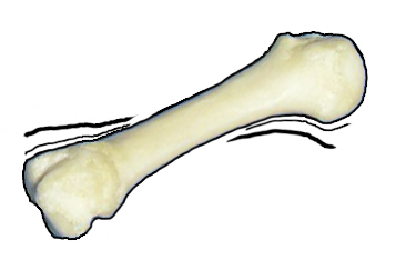 The Bone Award, for throwing somebody a bone.